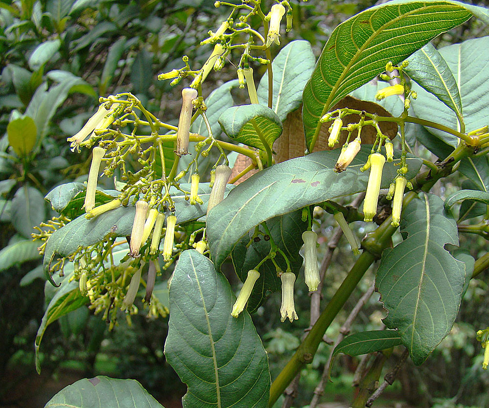 Known as Tominejero and native to the eastern mountains of Colombia. Botanical Gardens of Bogota.